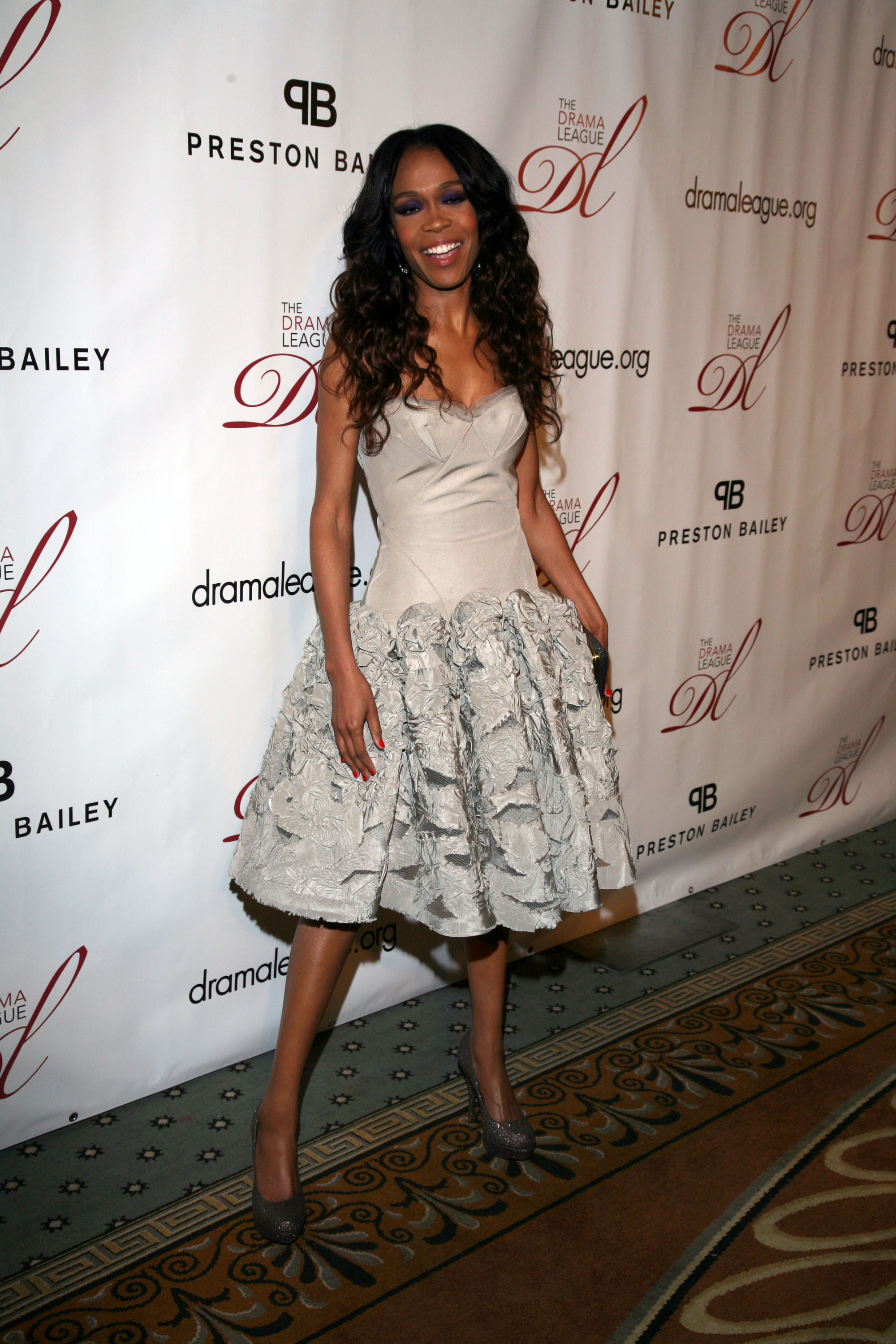 Michelle Williams at the 2012 Drama League Benefit Gala.